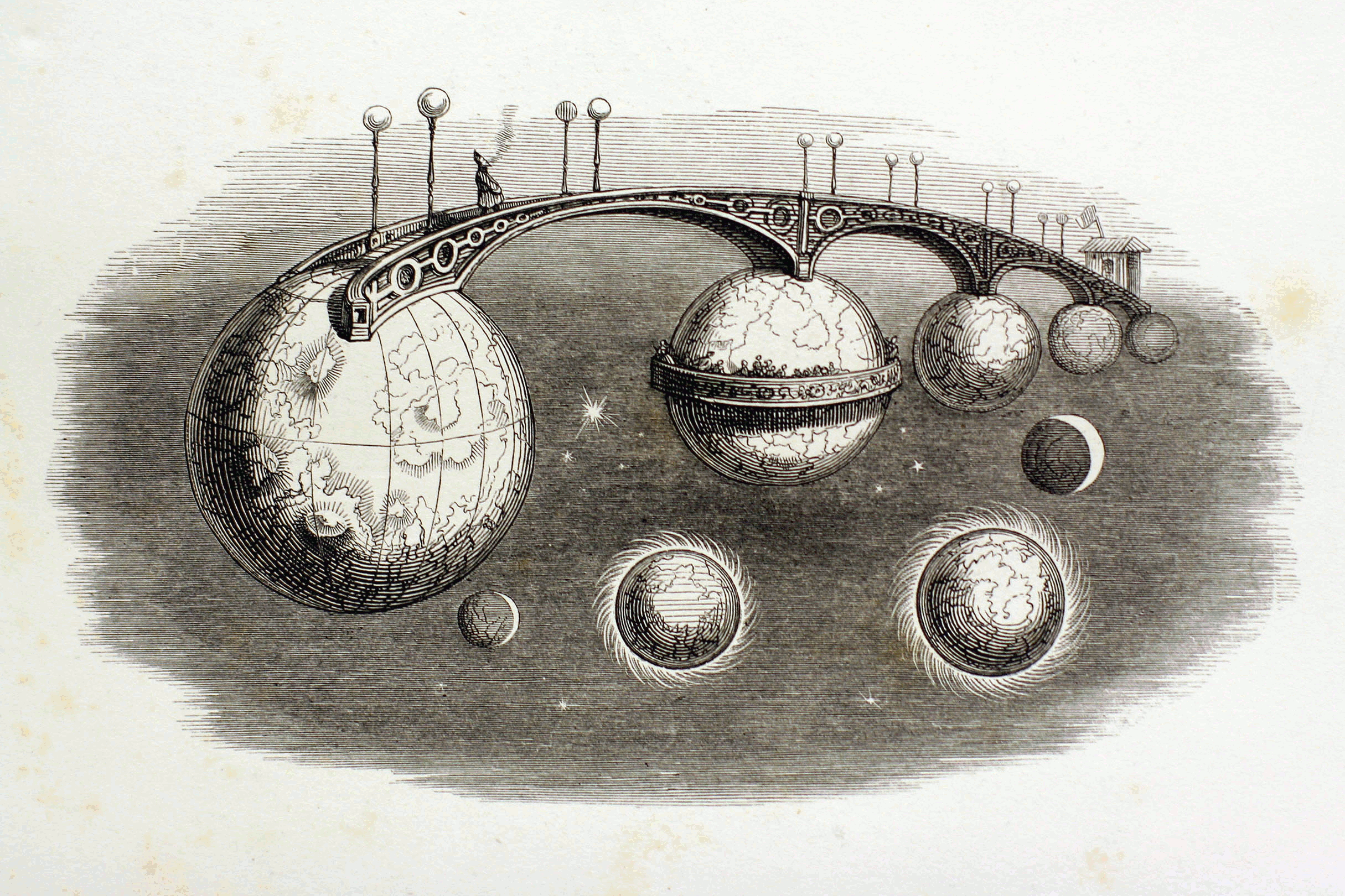 Illustration by J. J. Grandville from Un Autre Monde [Paris: H. Fournier, 1844].